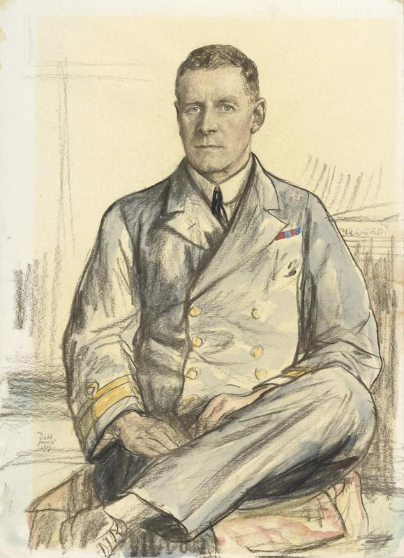 Rear-admiral Osmond de Beauvoir Brock Cb Cmg image: a three quarter length portrait of Rear Admiral Osmond Brock in uniform, sitting on a chair with his left leg resting on his right knee.